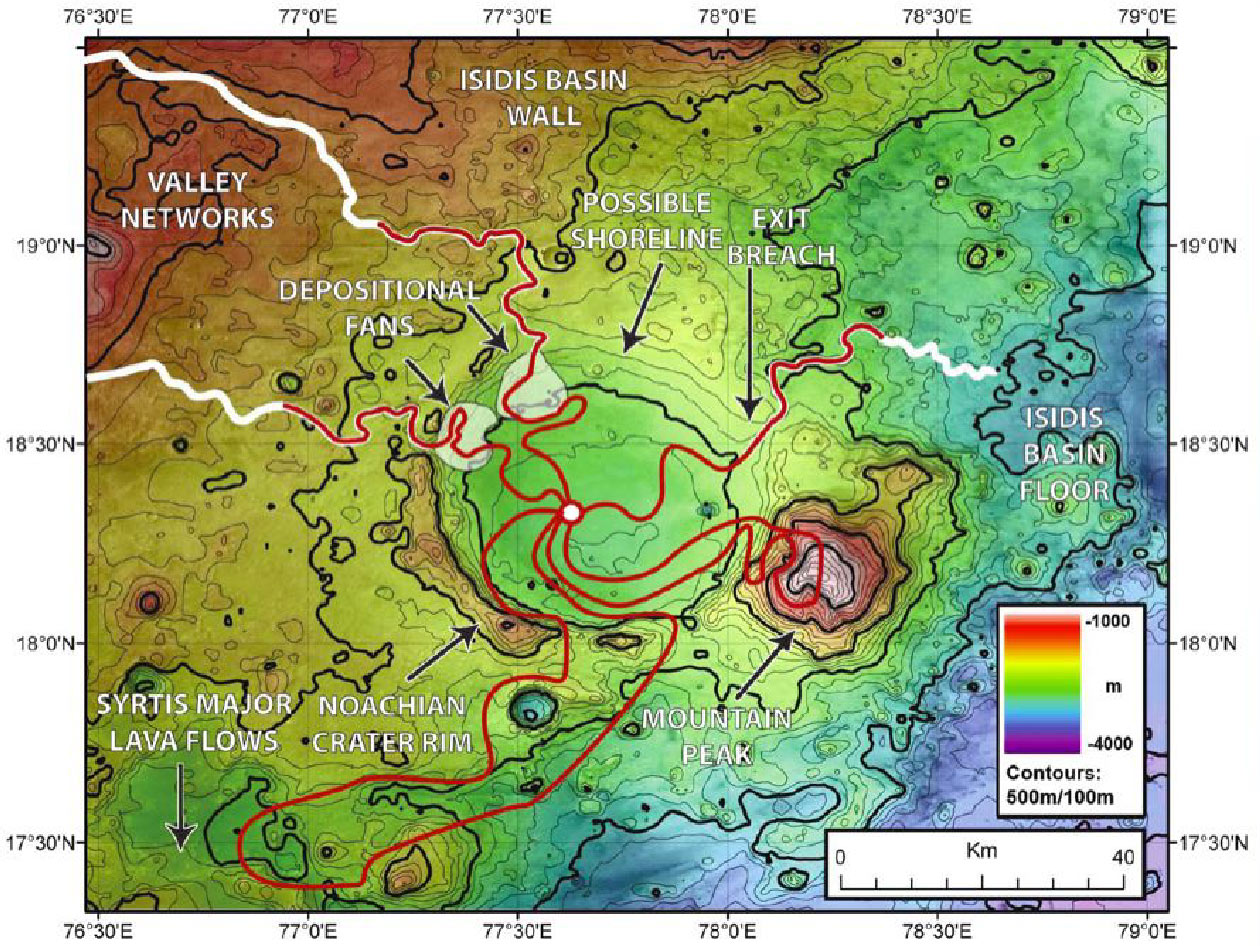 Exemple of Exploration-of-mars-by-manned mission (NASA Human Exploration of Mars Design Reference Architecture 5.0) feb 2009